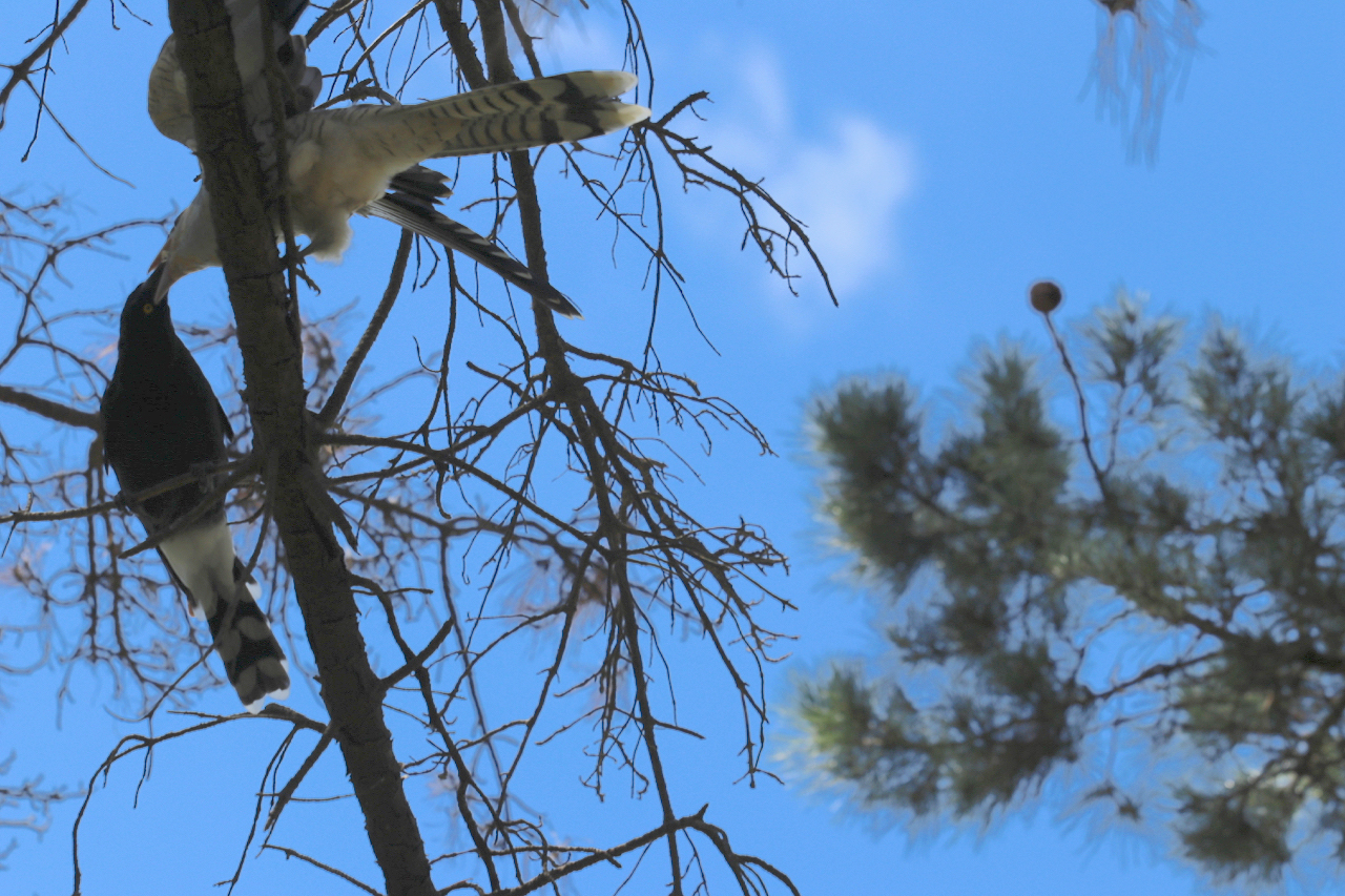 The migratory cuckoo (Scythrops novaehollandiae) arrives in Australia from New Guinea during spring/summer. It lays its eggs in the nests of larger birds. The cuckoo chicks push out the other nestlings, and are raised by their 'foster' parents.